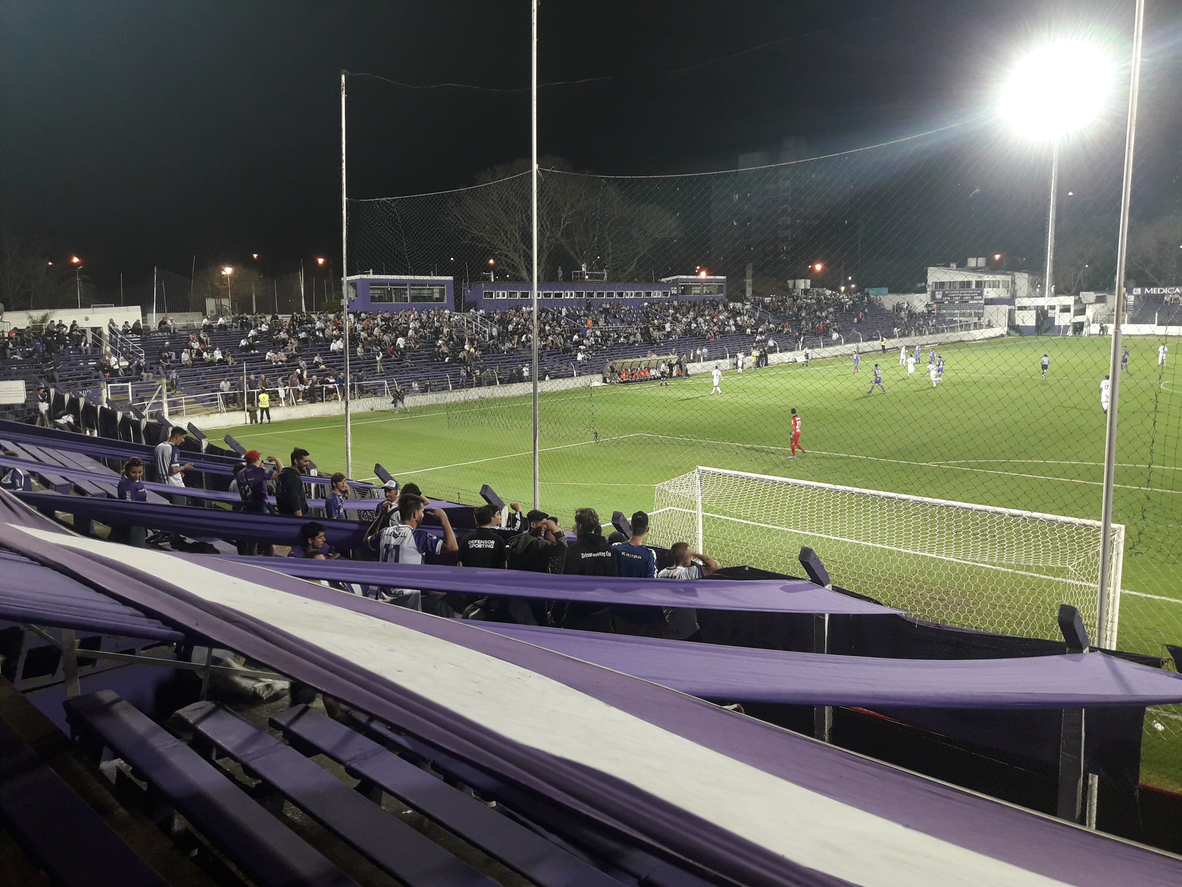 Partido entre Defensor sporting y Liverpool